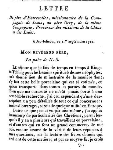 Lettre_du_pere_Entrecolles 1712